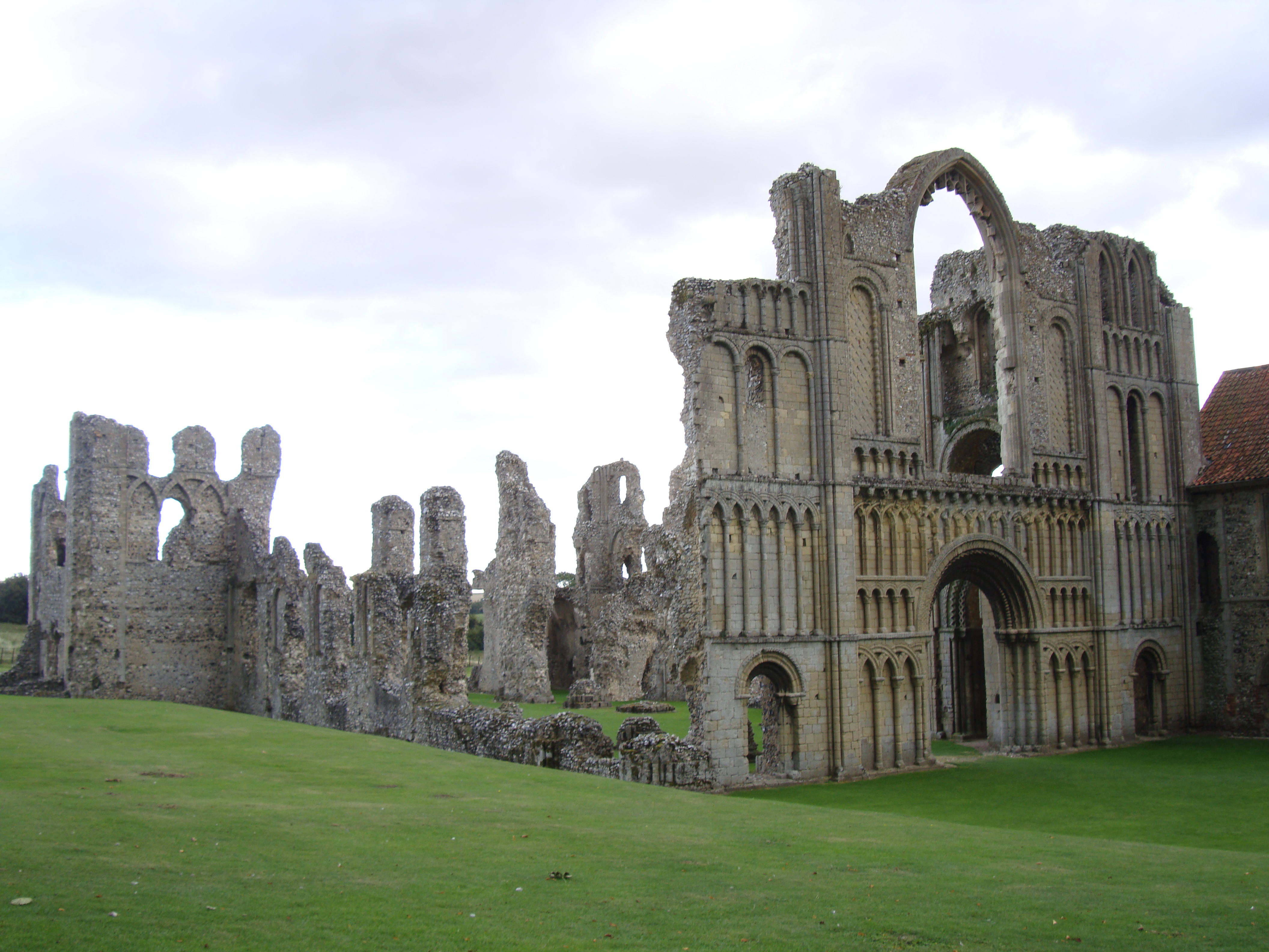 Photograph of the remains of Castle Acre Priory, Norfolk, England